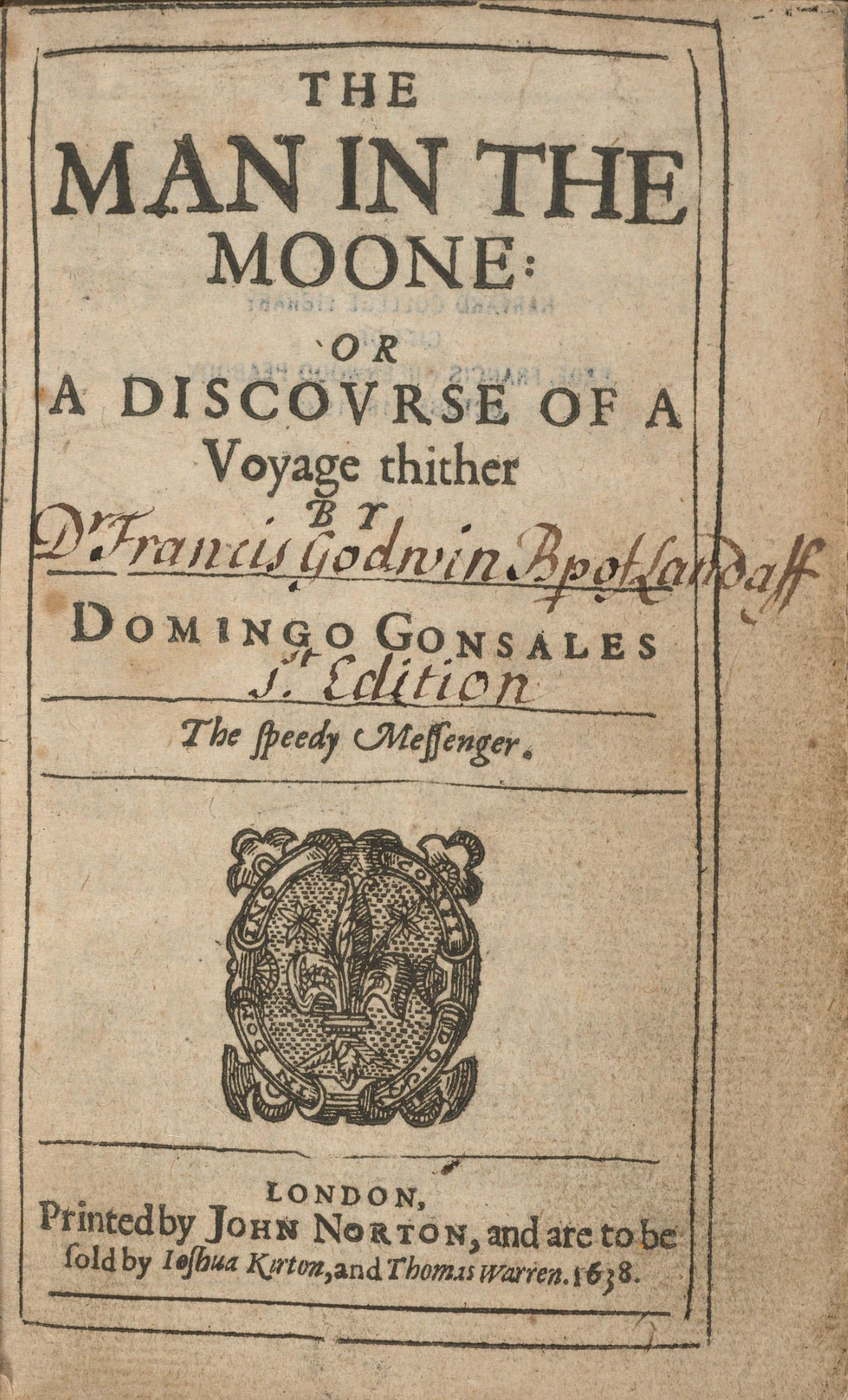 Title page from The man in the moone, or A discourse of a voyage thither by Domingo Gonsales the speedy messenger, 1638, by Francis Godwin (1562-1633). STC 11943.5, Houghton Library, Harvard University